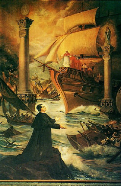 The dreams of Saint John Bosco